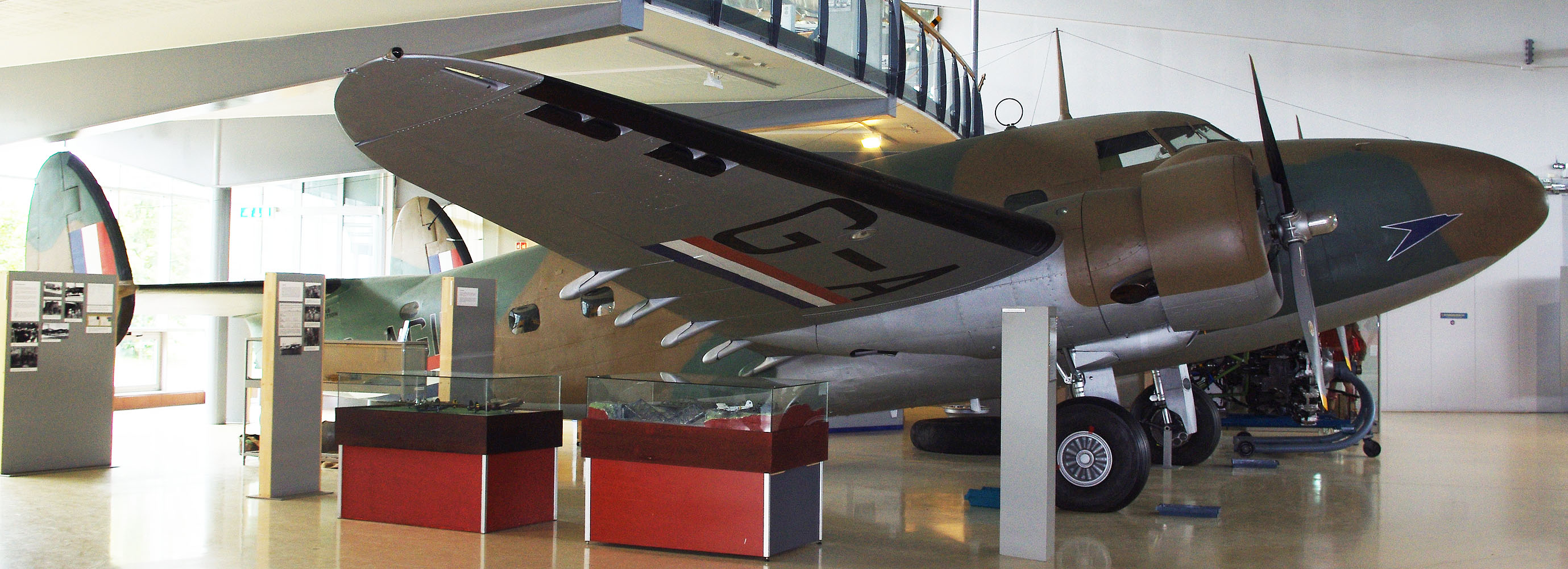 Lockheed Lodestar (G-AGIH) in BOAC colours, Forsvarets flysamling, Gardermoen, Norway